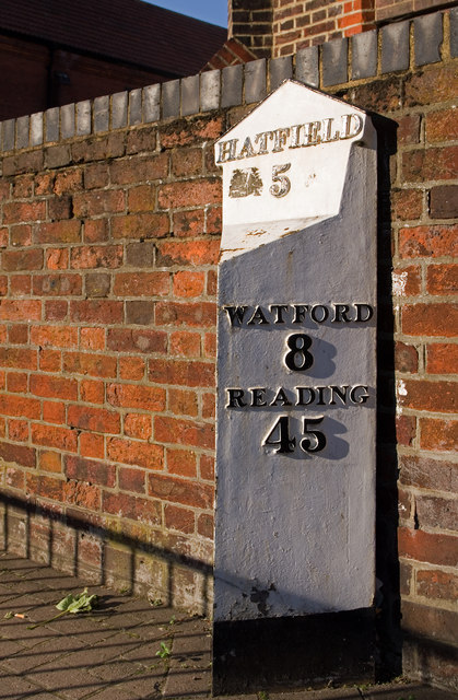 Milepost, Hatfield Road